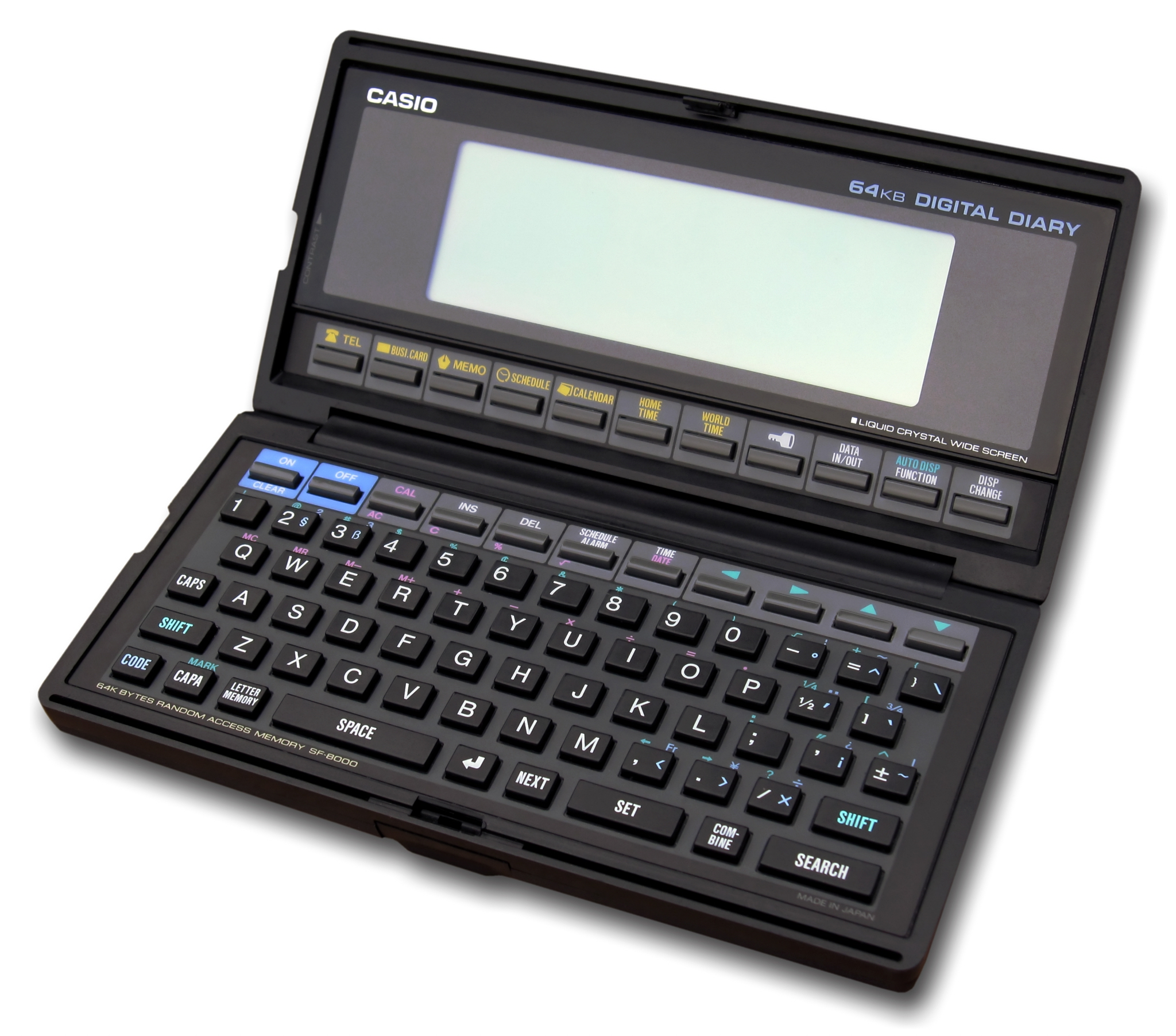 Casio SF-8000 Digital diary